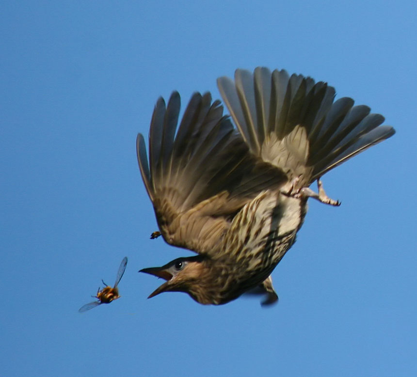 Australasian figbird hawking a beetle. Carrington, Newcastle NSW Australia.